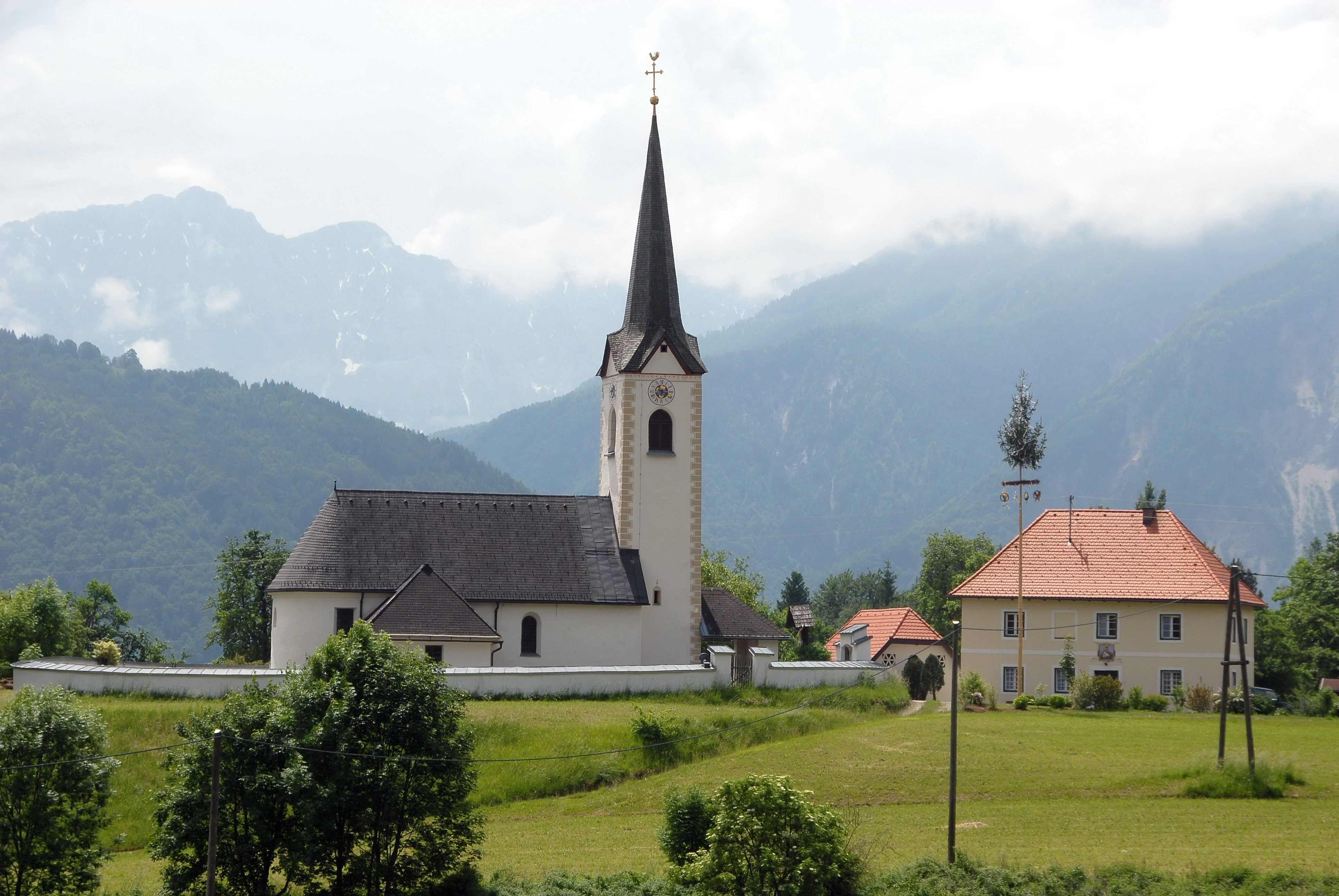 Parish church Saint Daniel and rectory at Goeltschach, municipality Maria Rain, district Klagenfurt Land, Carinthia, Austria, EU